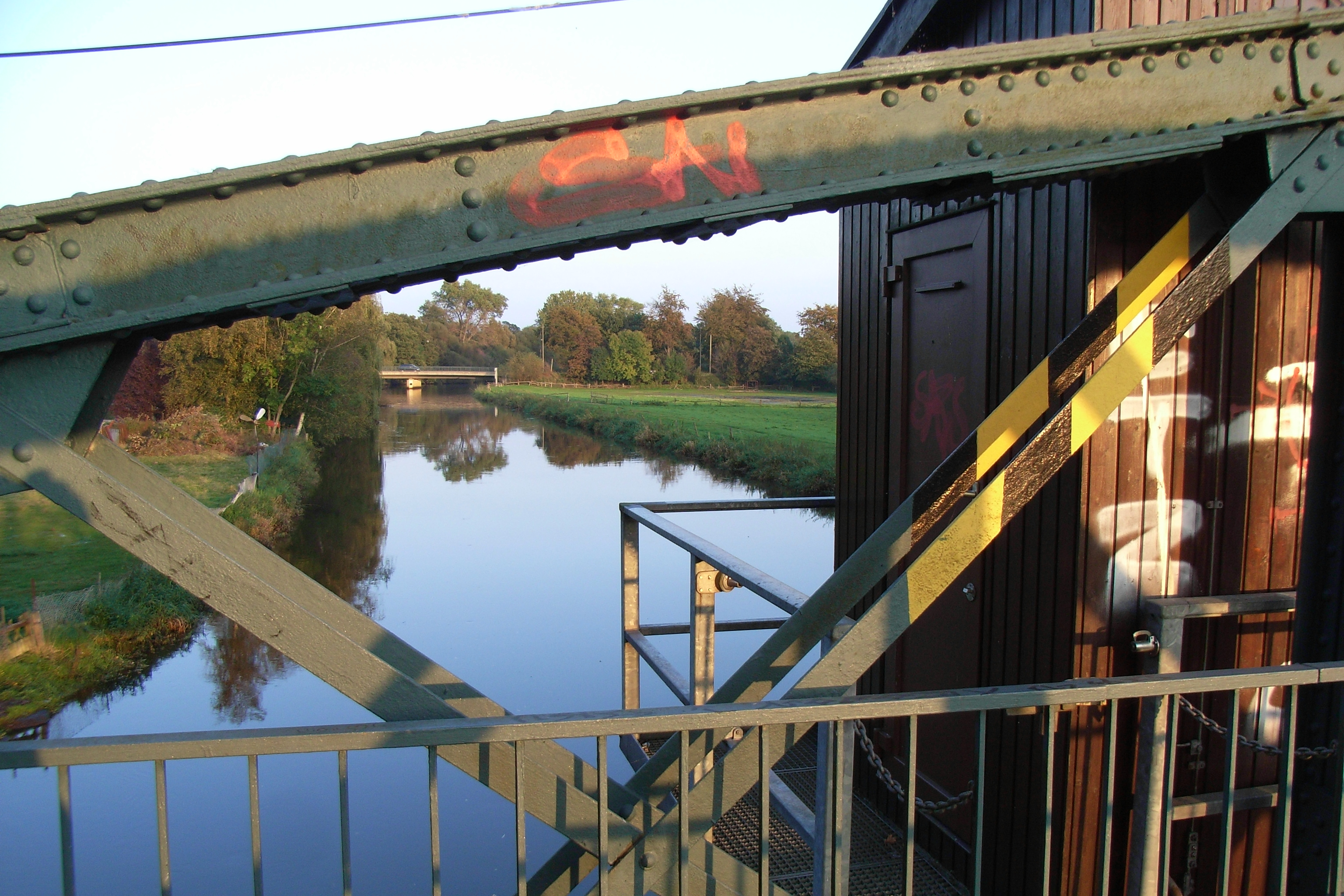 View from the former Jan Reiners railway bridge onto the river Wümme